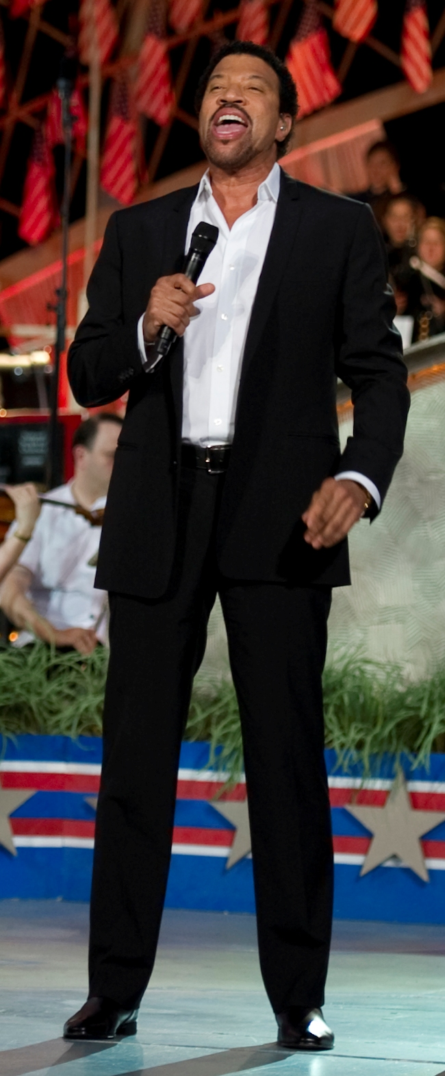 Lionel Richie thanks the audience for their participation in the National Memorial Day Concert on the West Lawn of the U.S. Capitol in Washington, D.C on May 30, 2010.